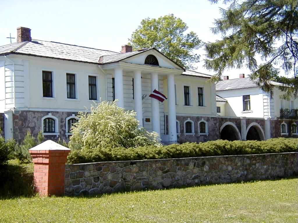 Vecpiebalga Manor in InešiLatviešu: Vecpiebalgas muižas pils Inešos